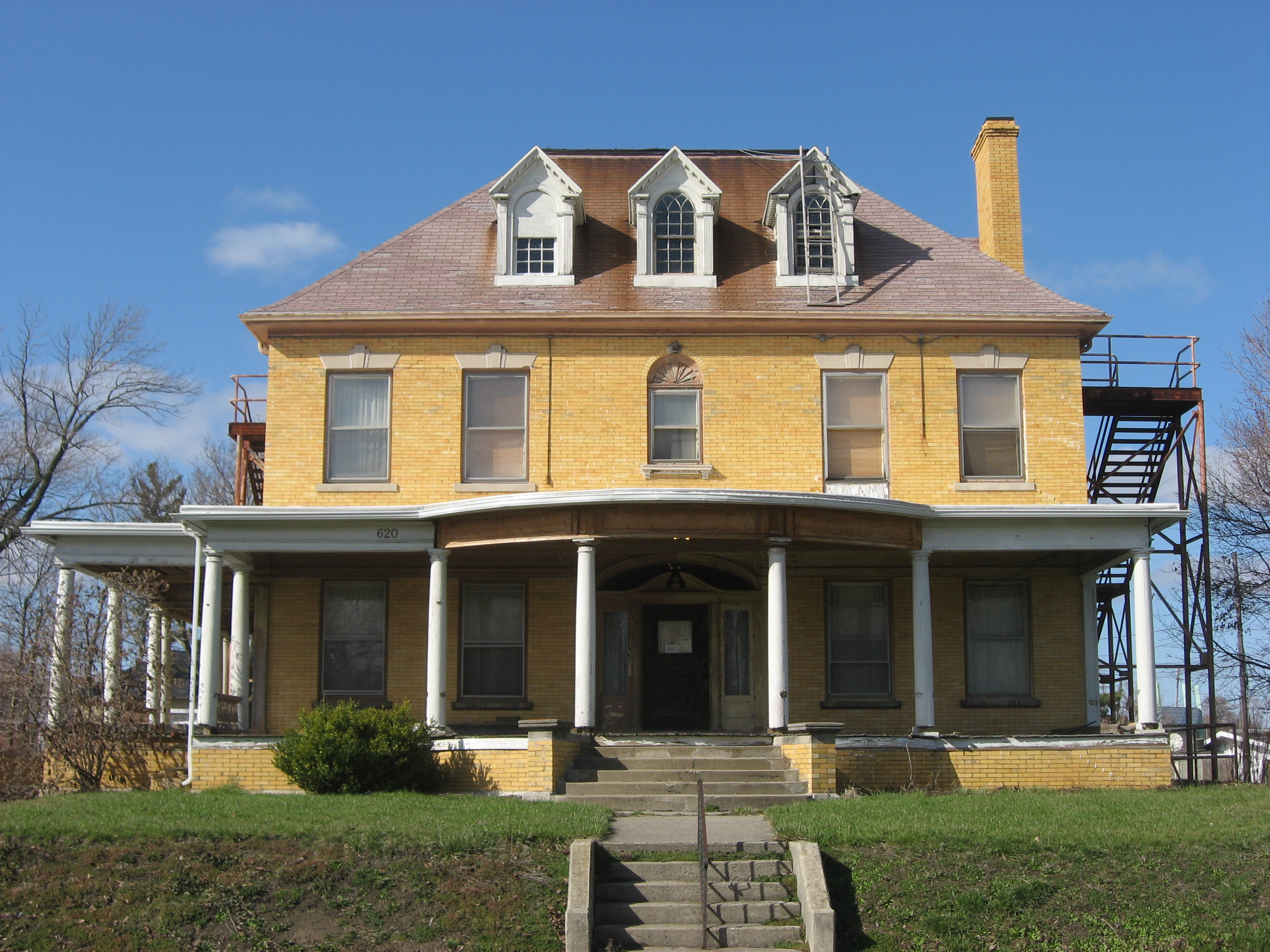 Front of the Neely-Sieber House, located at 620 W. Spring Street in Lima, Ohio, United States. Built in 1904, it is listed on the National Register of Historic Places.